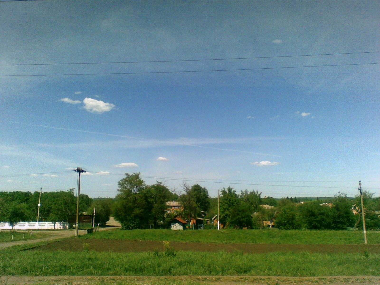 Lozove, Derazhnia Raion, Khmelnytsky Oblast, Ukraine